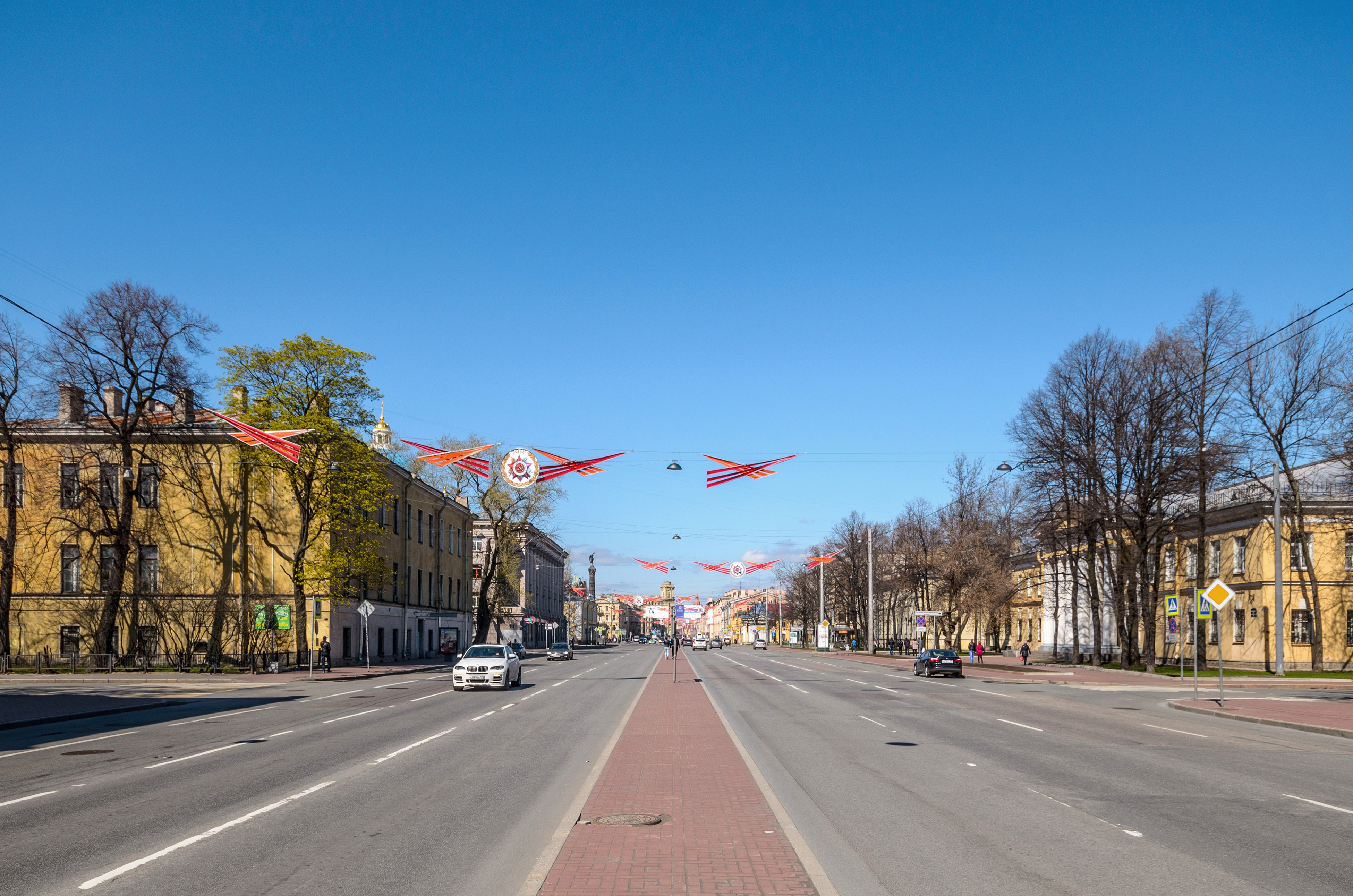 Izmaylovsky Avenue in Saint Petersburg